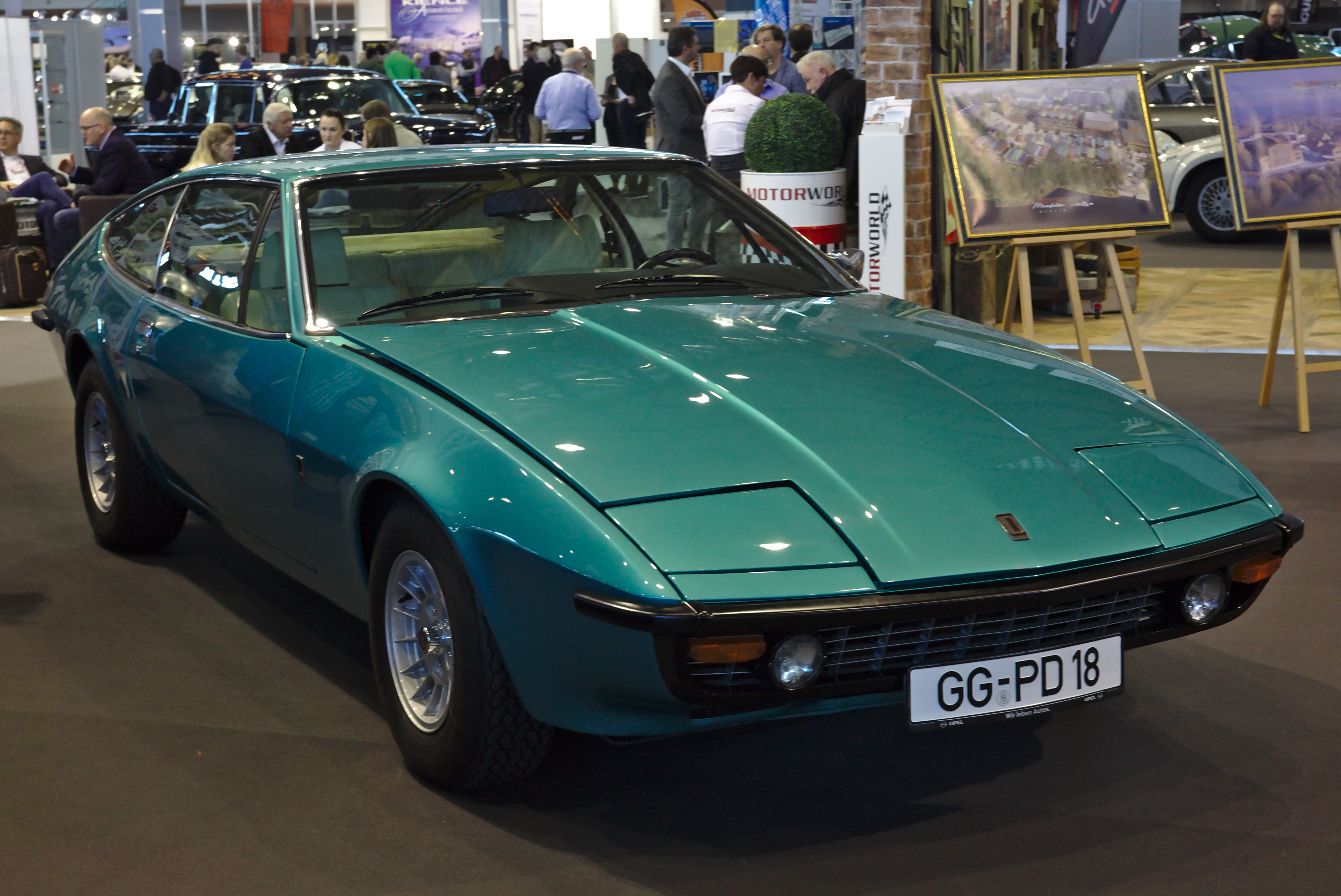 Bitter CD at Retro Classics 2019